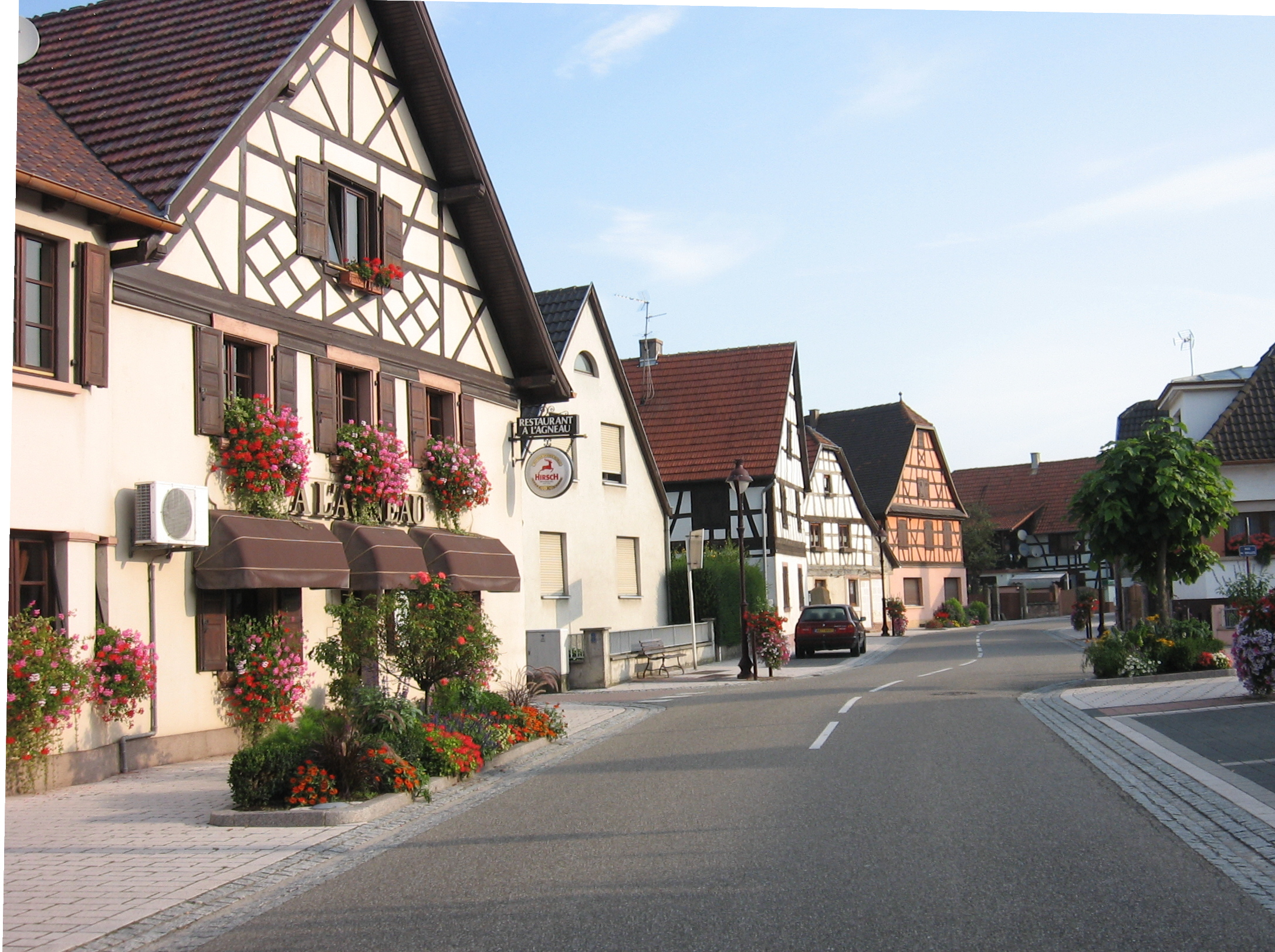 Beinheim